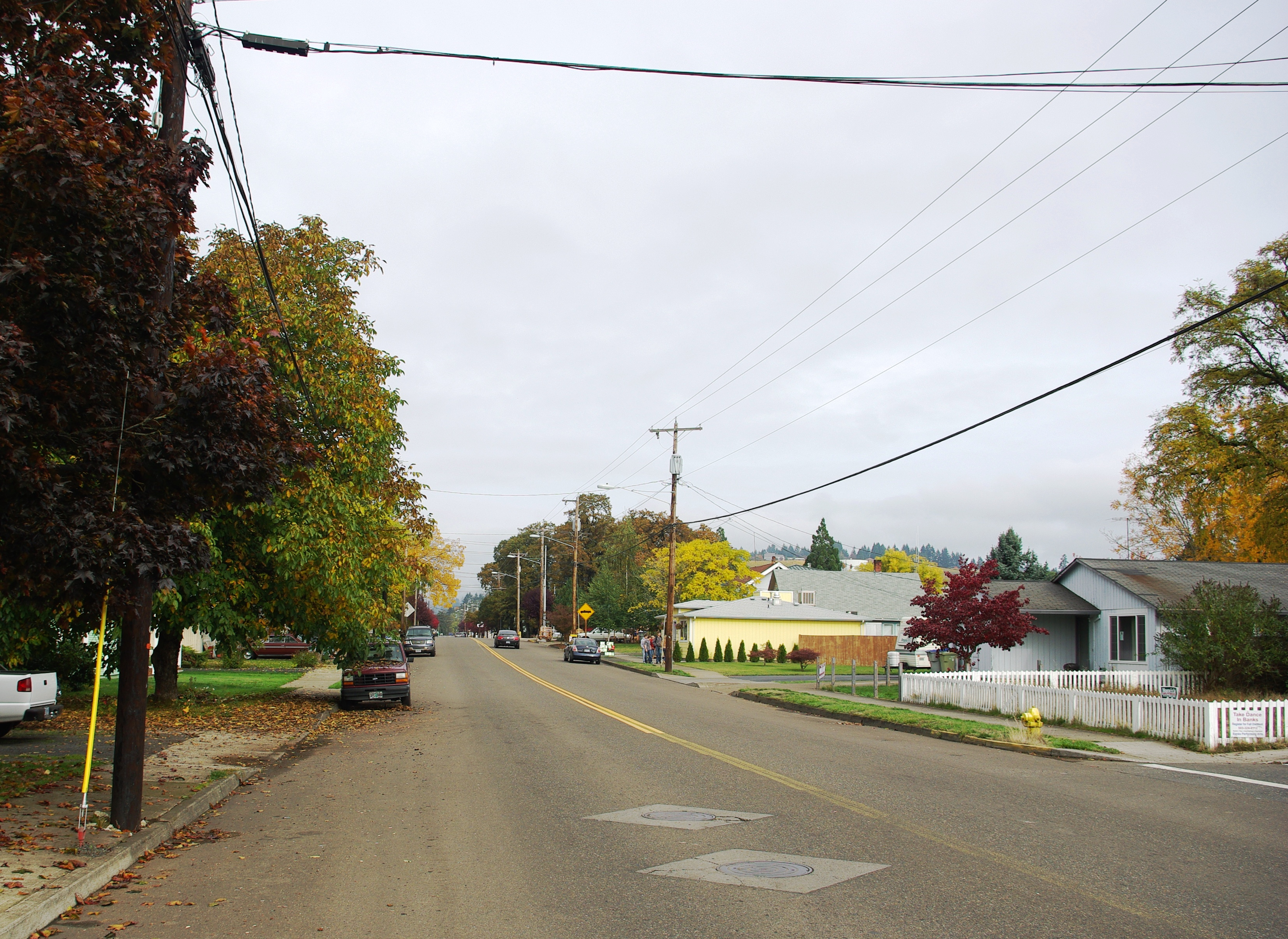 Oregon Route 47 in Banks, Oregon, USA, looking north